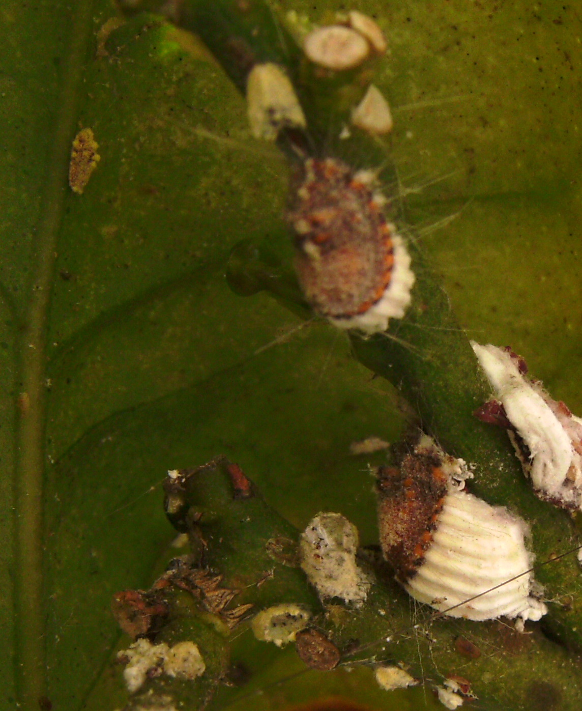 Icerya purchasi life stages on a lemon tree, Barcelona, Catalonia